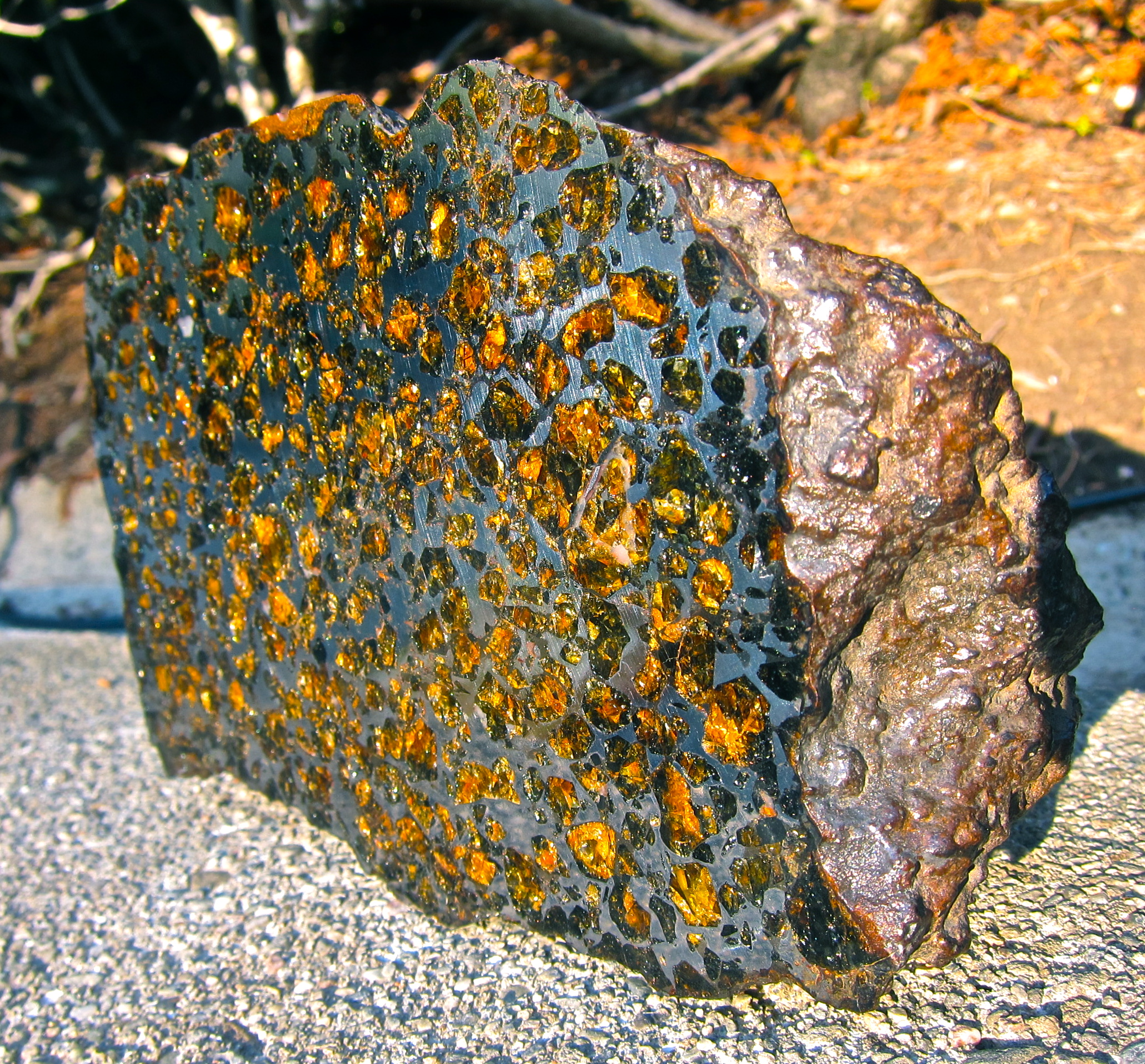 Brahin meteorite, pallasite. 3 kg end piece, cut and polished.